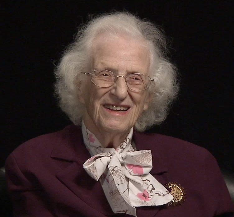 Astronomer Nancy Grace Roman at age 88 (still from a NASA-produced video). Roman was NASA's first Chief of Astronomy in the Office of Space Science. In her role, she successfully managed numerous astronomy-based projects including the Hubble Space Telescope.